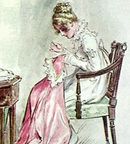 Fanny sewing (detail from File:Mp-Brock-10.jpg)